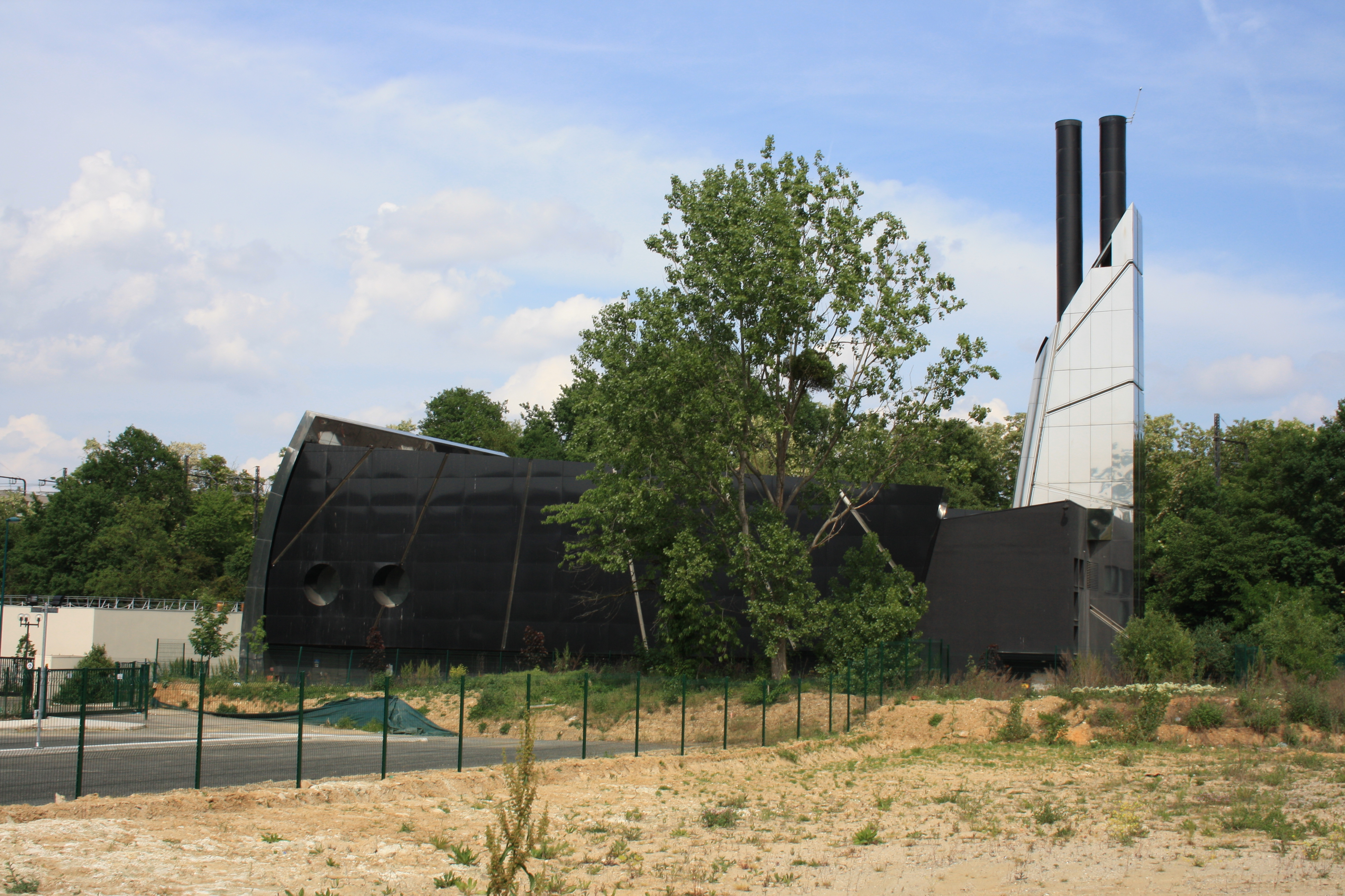 The boiler N°2 Victor Basch in Massy, Essonne in France